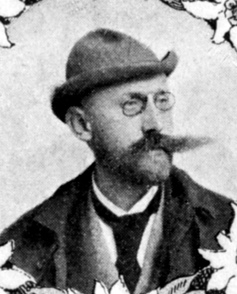 enlargement of photograph of the poet on title page